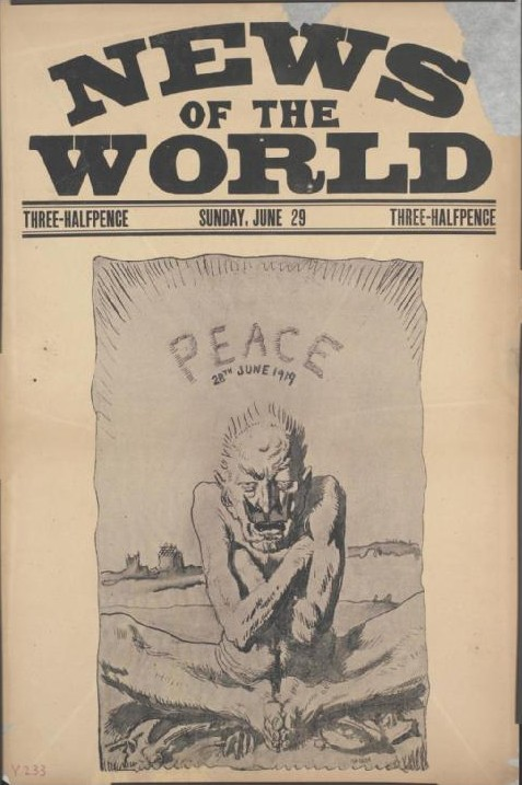 Placard for the News of the World : "Peace 28th June 1919" caricaturing ex-Kaiser Wilhelm II as a naked sadhu.